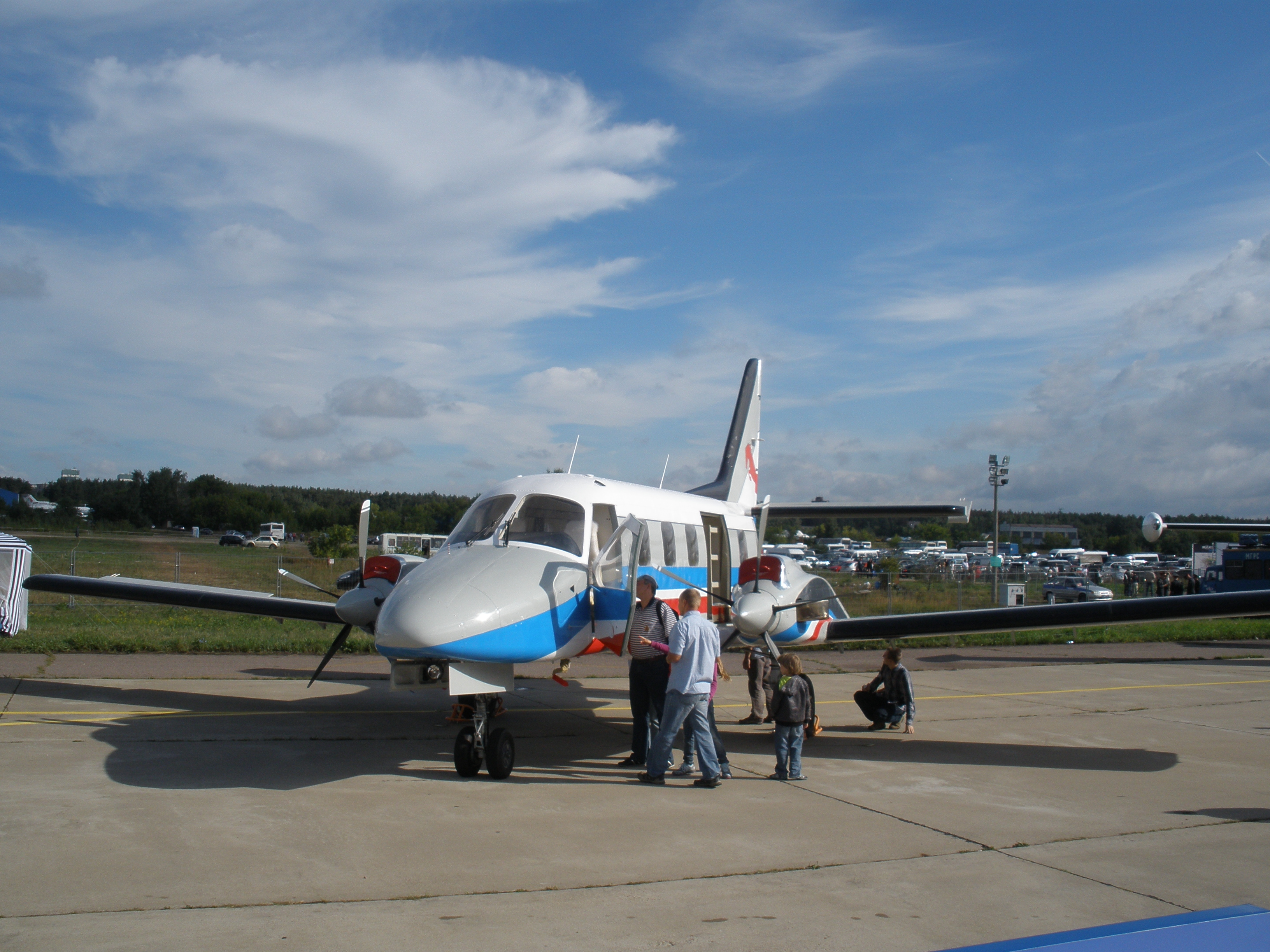 "Rysachok" lightweight multipurpose airplane at MAKS-2011 airshow